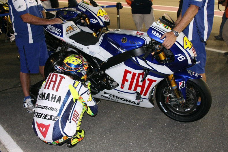 GP of Qatar